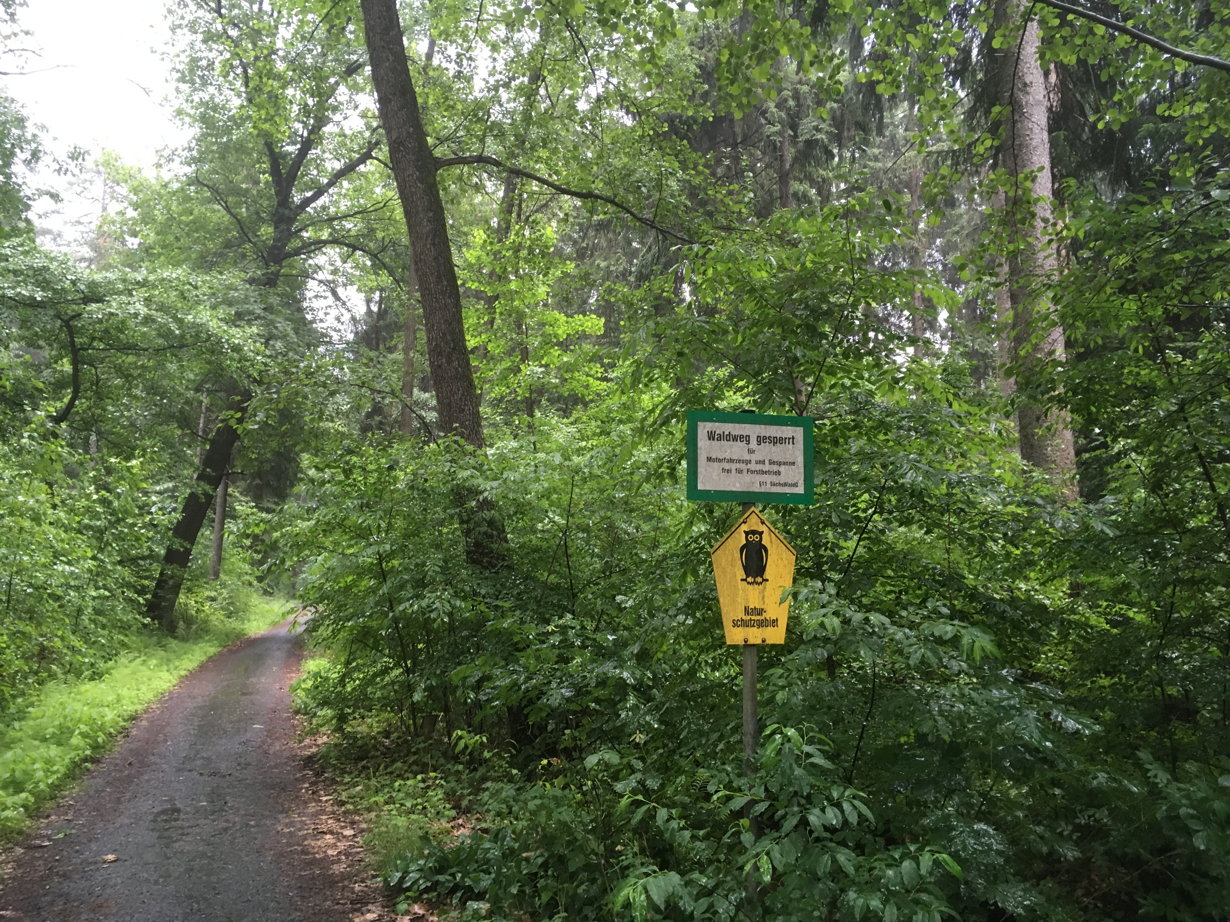 Nature reserve area “Keulaer Tiergarten” near Weißwasser/O.L.